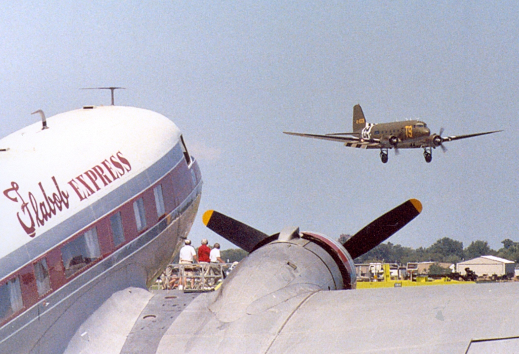 Douglas DC-3